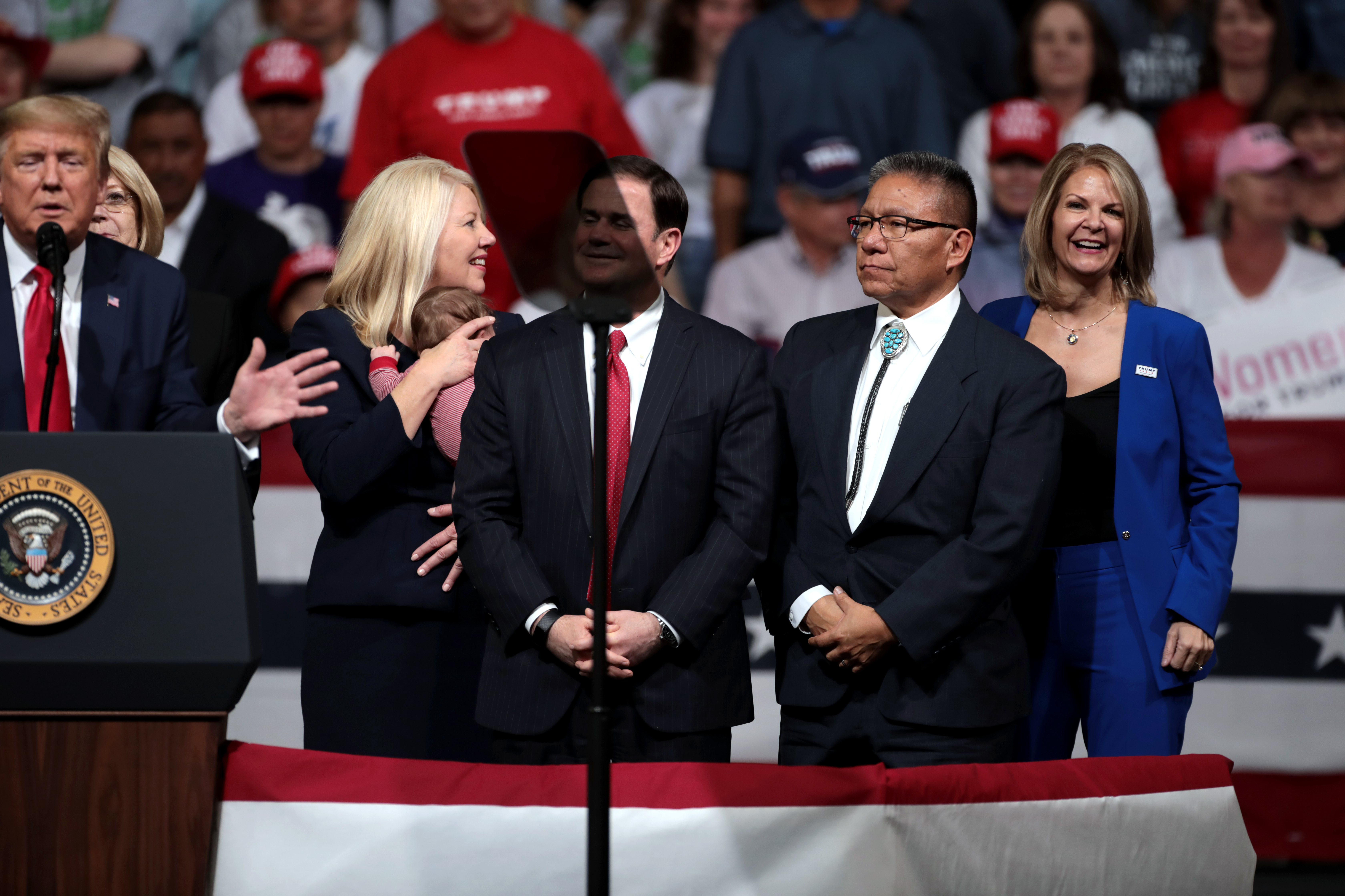 President of the United States Donald Trump, U.S. Congresswoman Debbie Lesko, Governor Doug Ducey, Vice President of the Navajo Nation Myron Lizer and Arizona Republican Party Chair Kelli Ward speaking with supporters at a "Keep America Great" rally at Arizona Veterans Memorial Coliseum in Phoenix, Arizona.